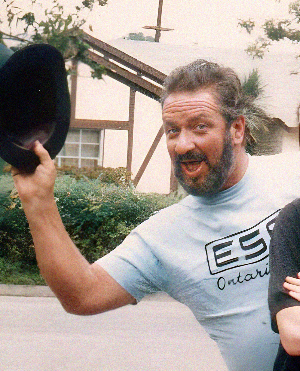 Big Daddy Ed Roth at Roth's home on San Feliciano Drive, in La Mirada,Ca 1987